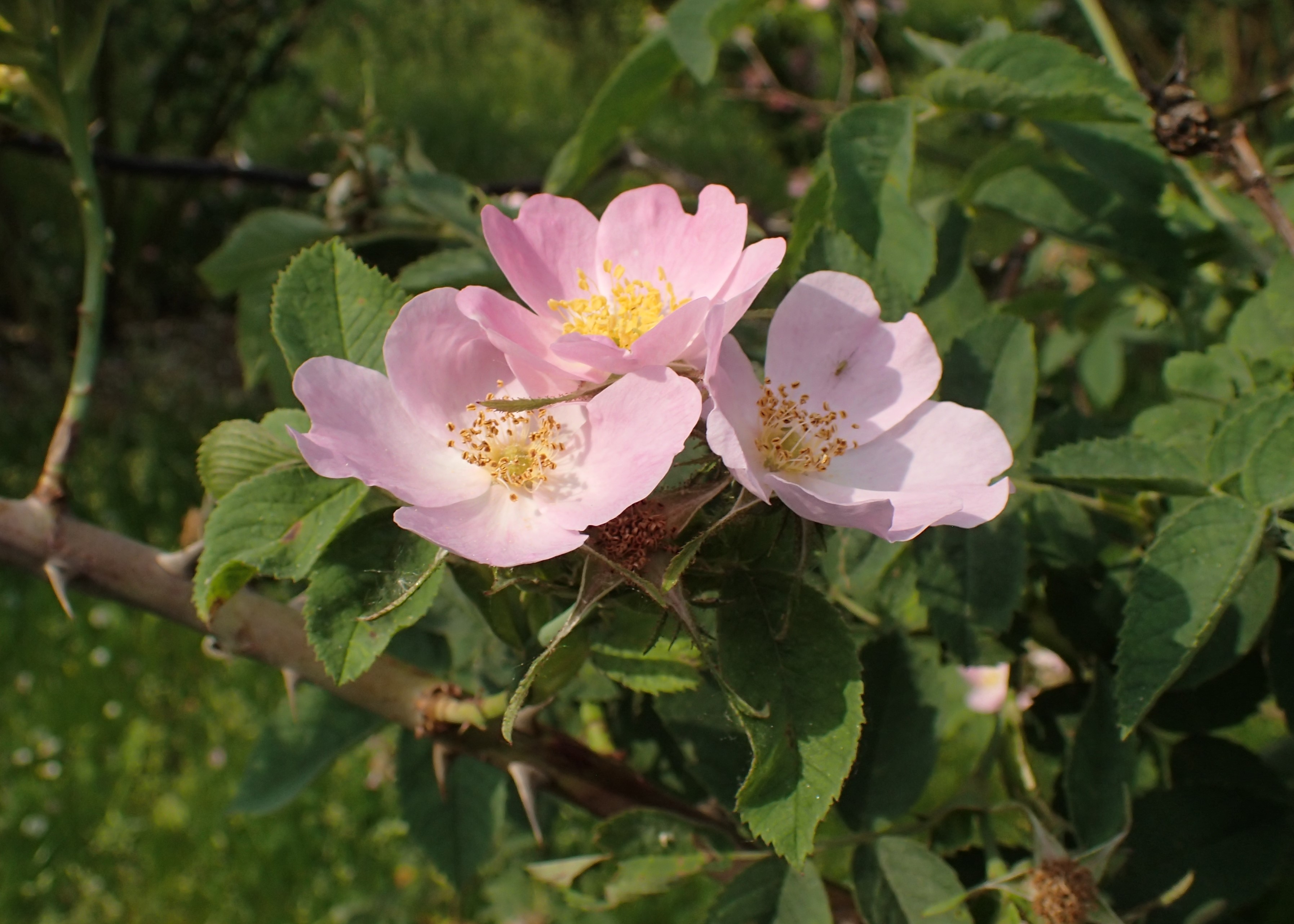 Rosa sherardii in the Rosarium Sangerhausen